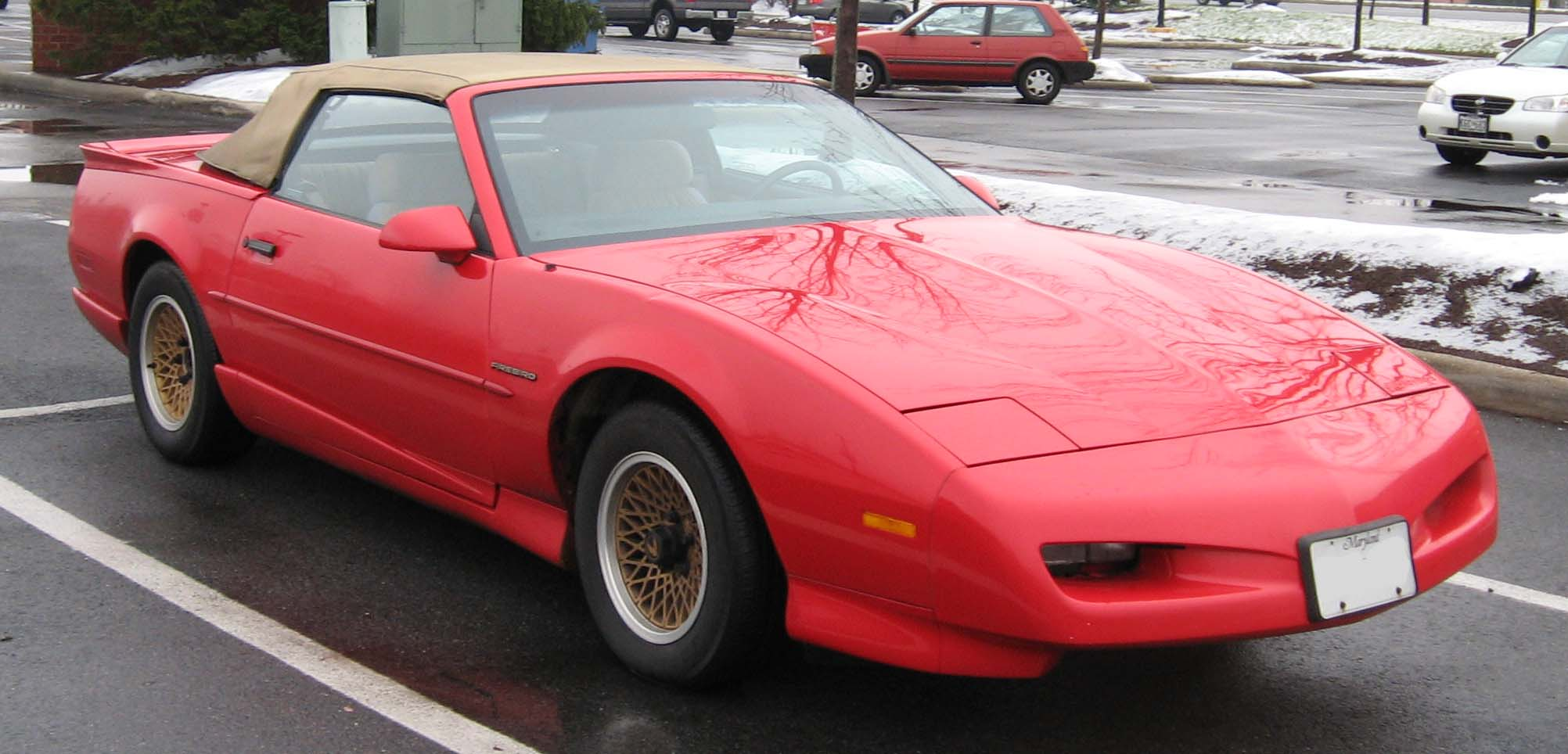 Pontiac Firebird convertible photographed in USA.